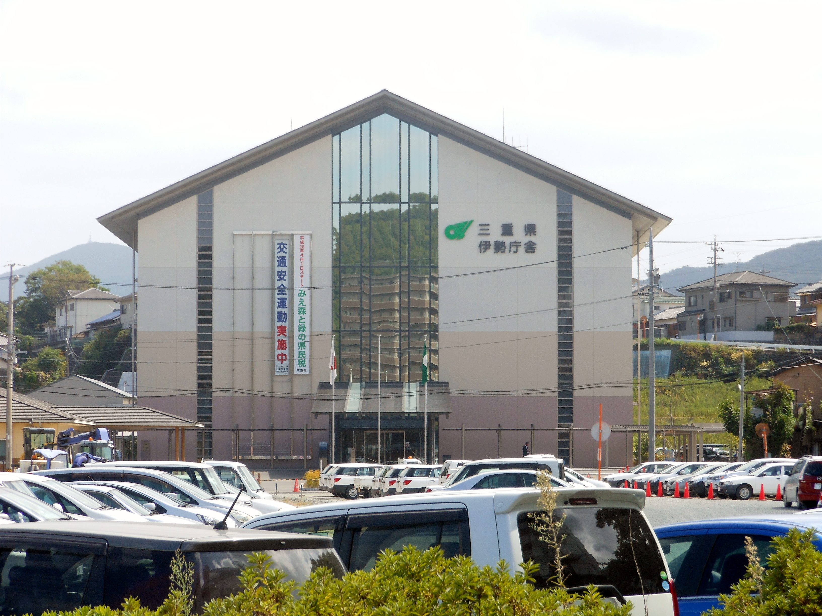 This is the Ise building of Mie prefectural government. This building is located in Seita-cho, Ise, Mie, Japan.